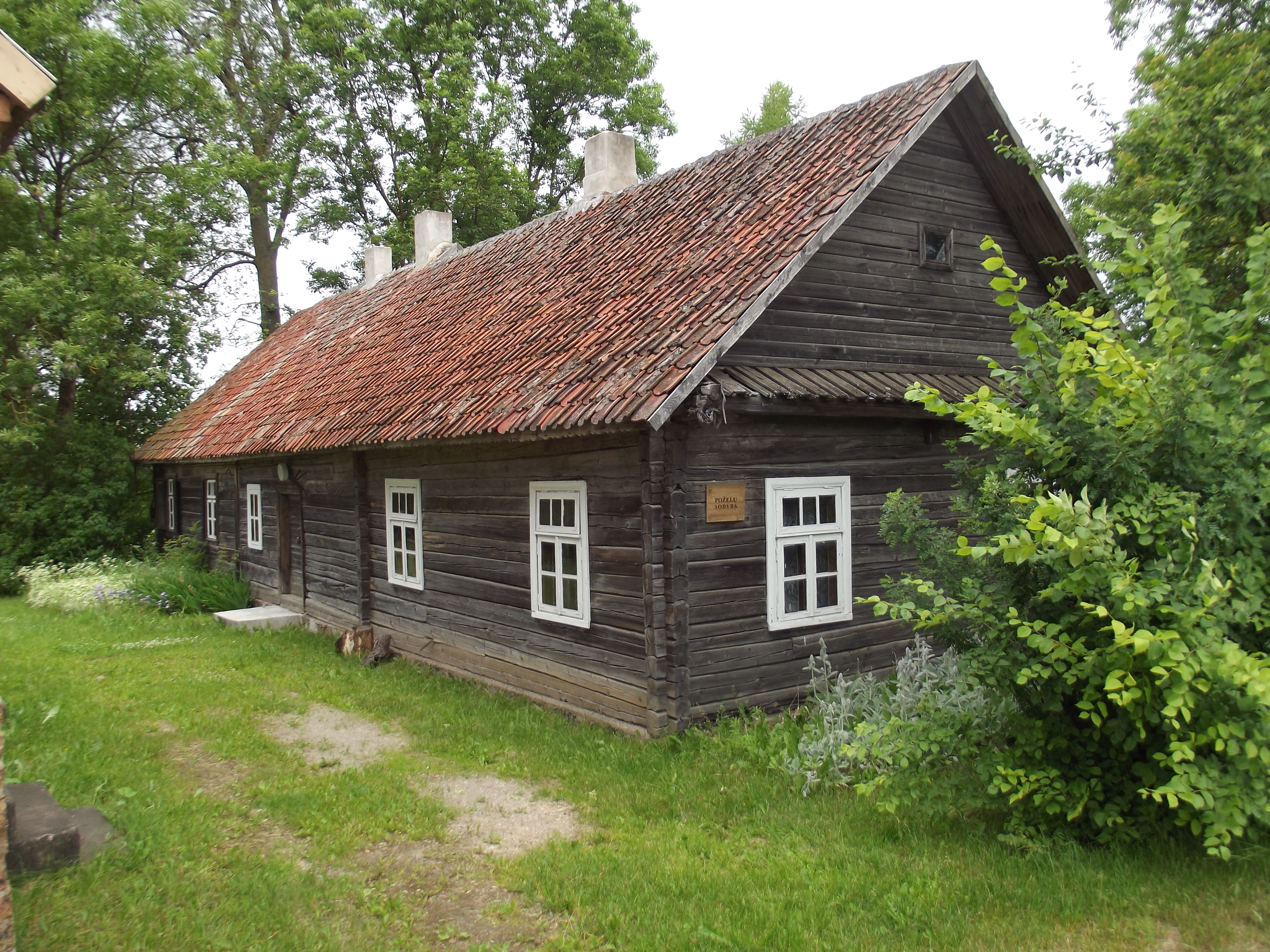 Bardiškiai, memorial house of Požėla family, Pakruojis district, Lithuania